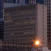 129 West Trade, Charlotte